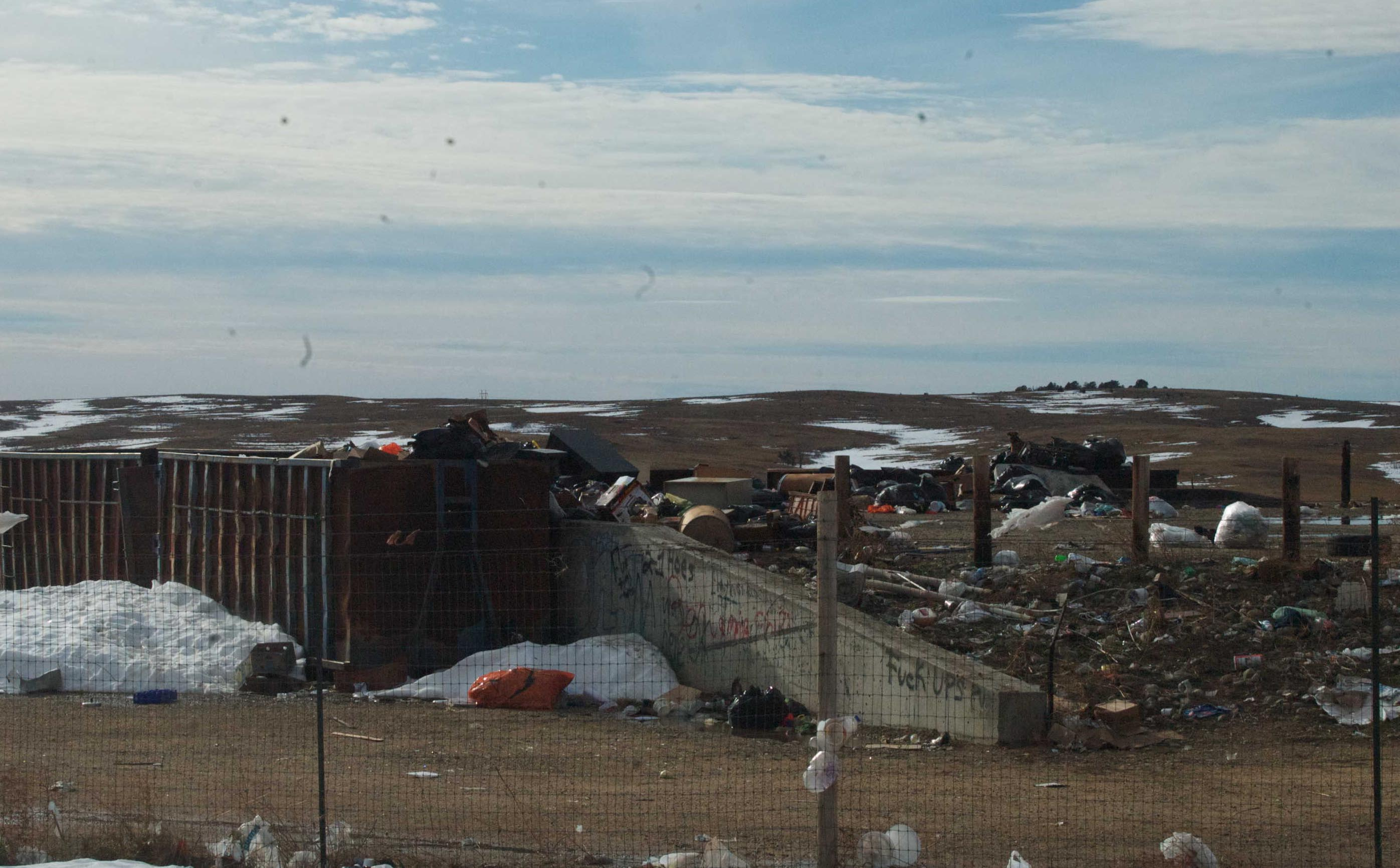 Garbage dump on a Lakota reservation.